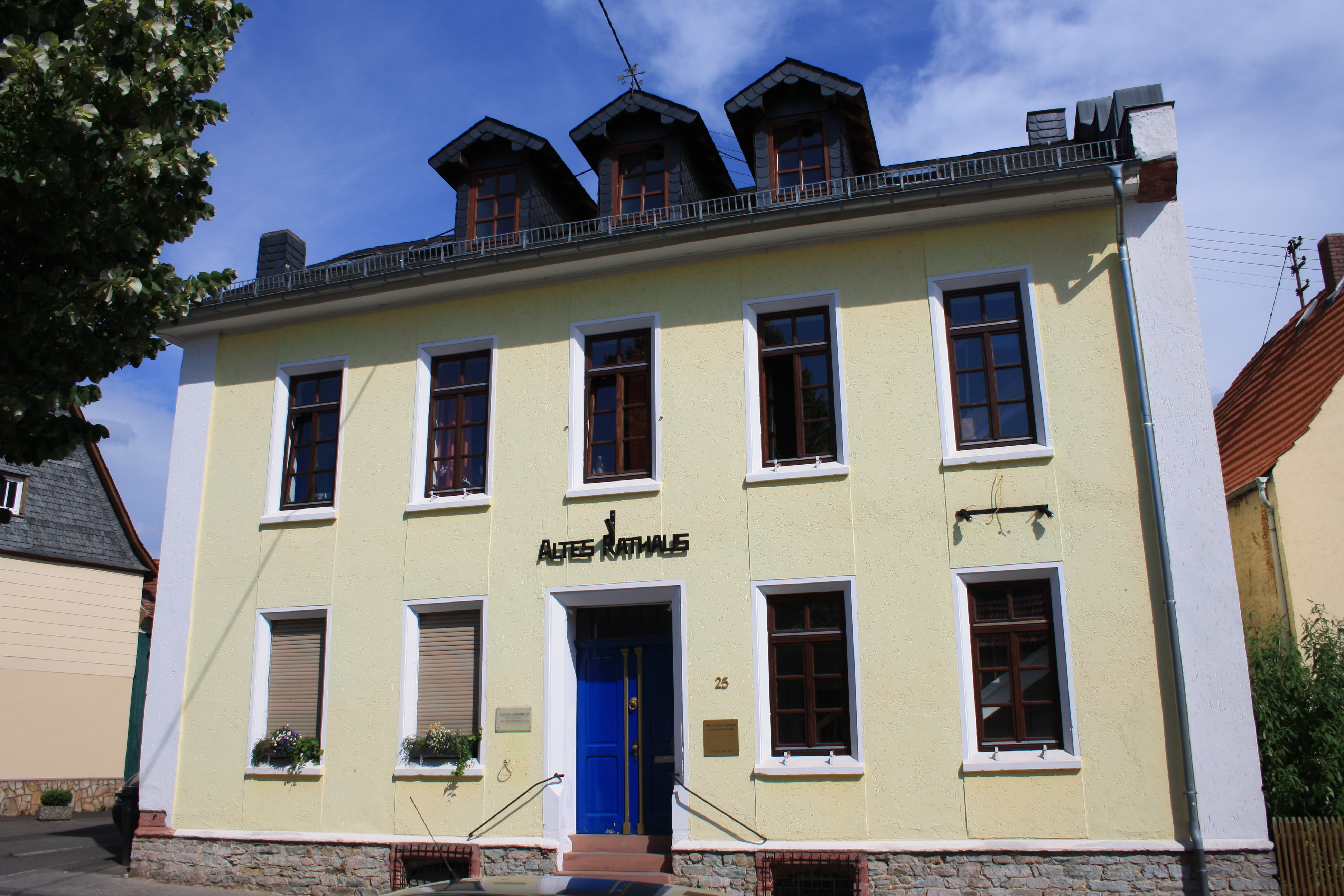 Old town hall Nordenstadt